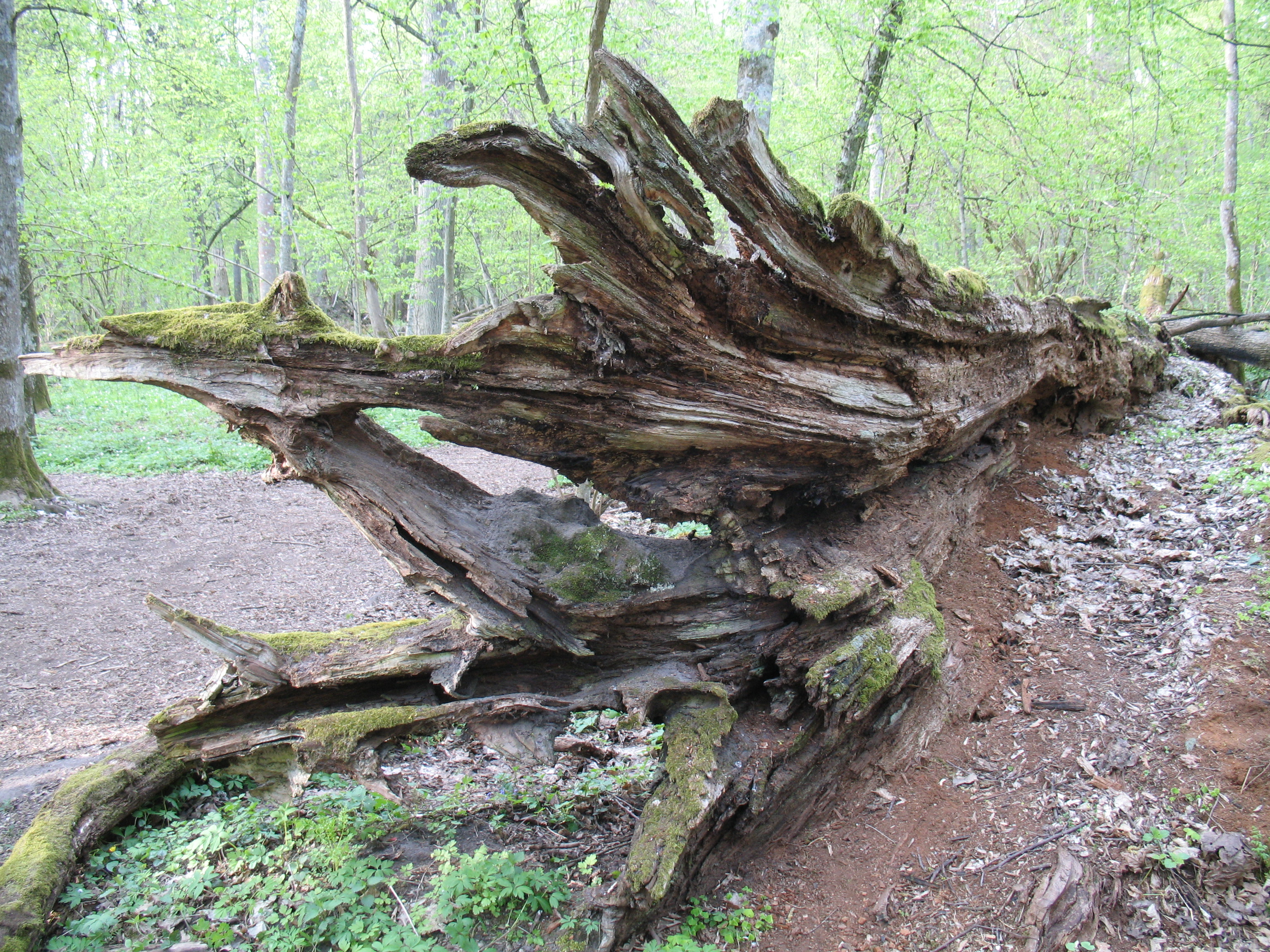 Białowieski National Park, the Jagiełło Oak